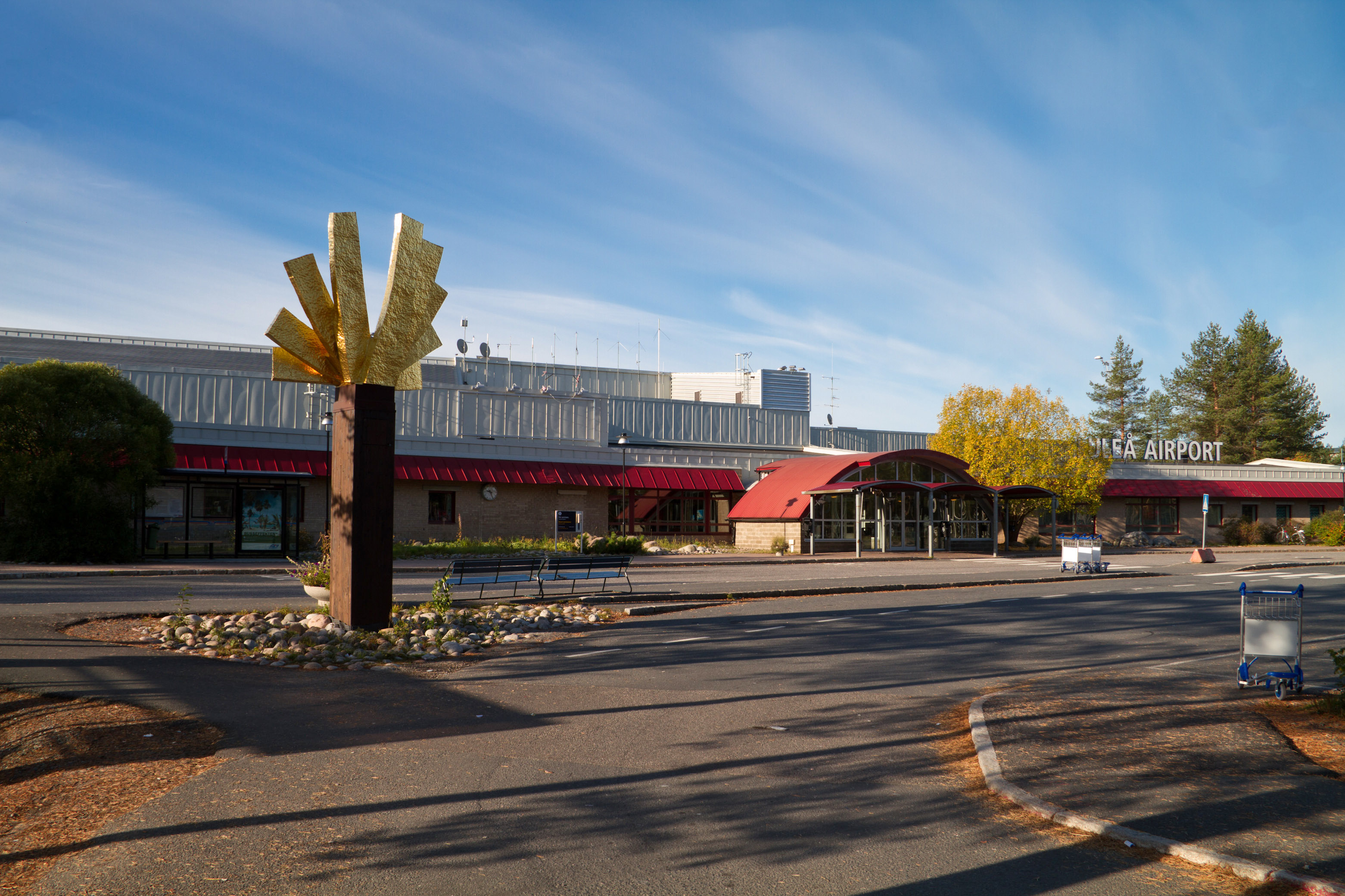 Luleå airport in Luleå, Sweden.